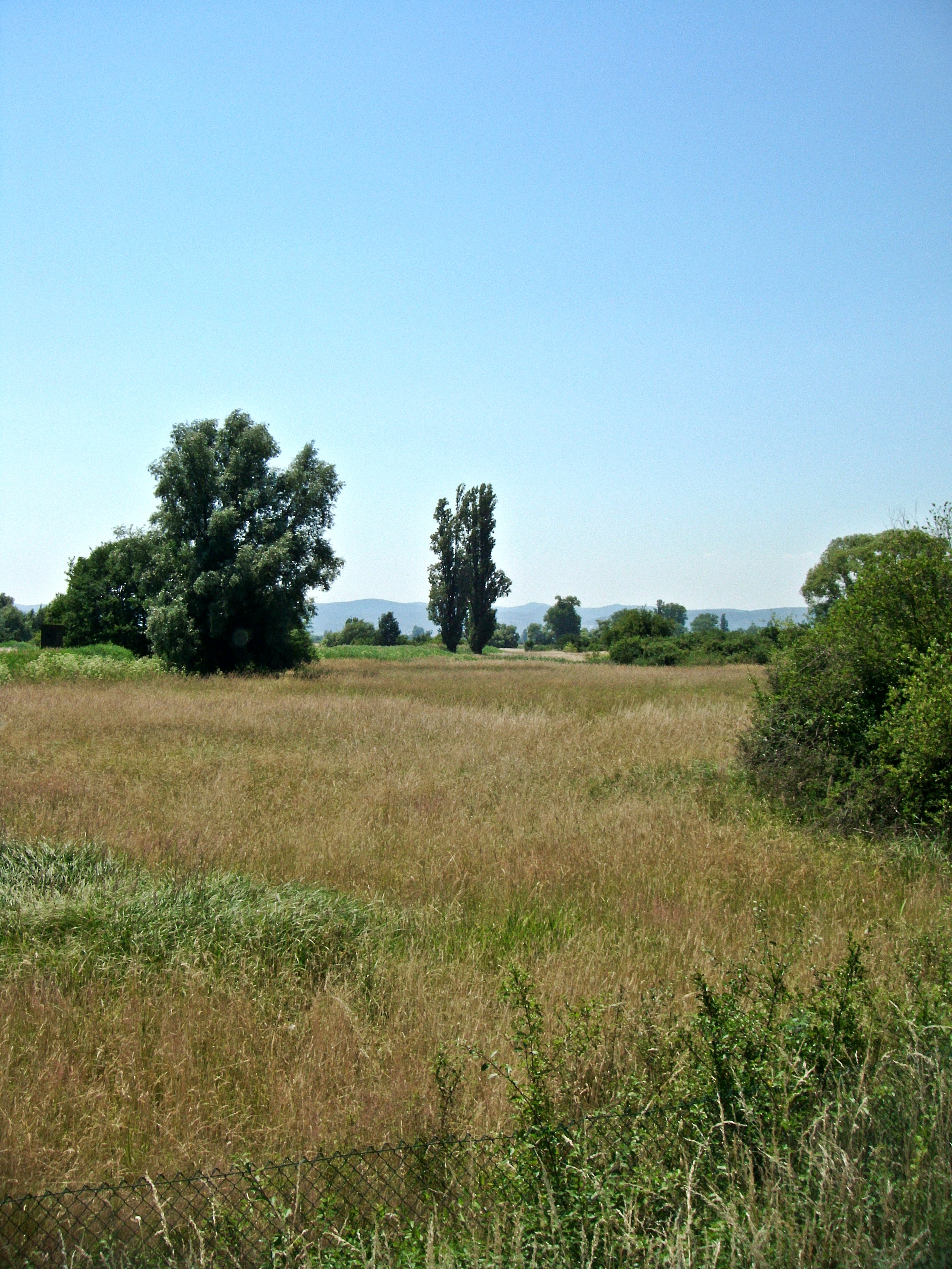 Dürkheimer Bruch, am Eyersheimer Hof